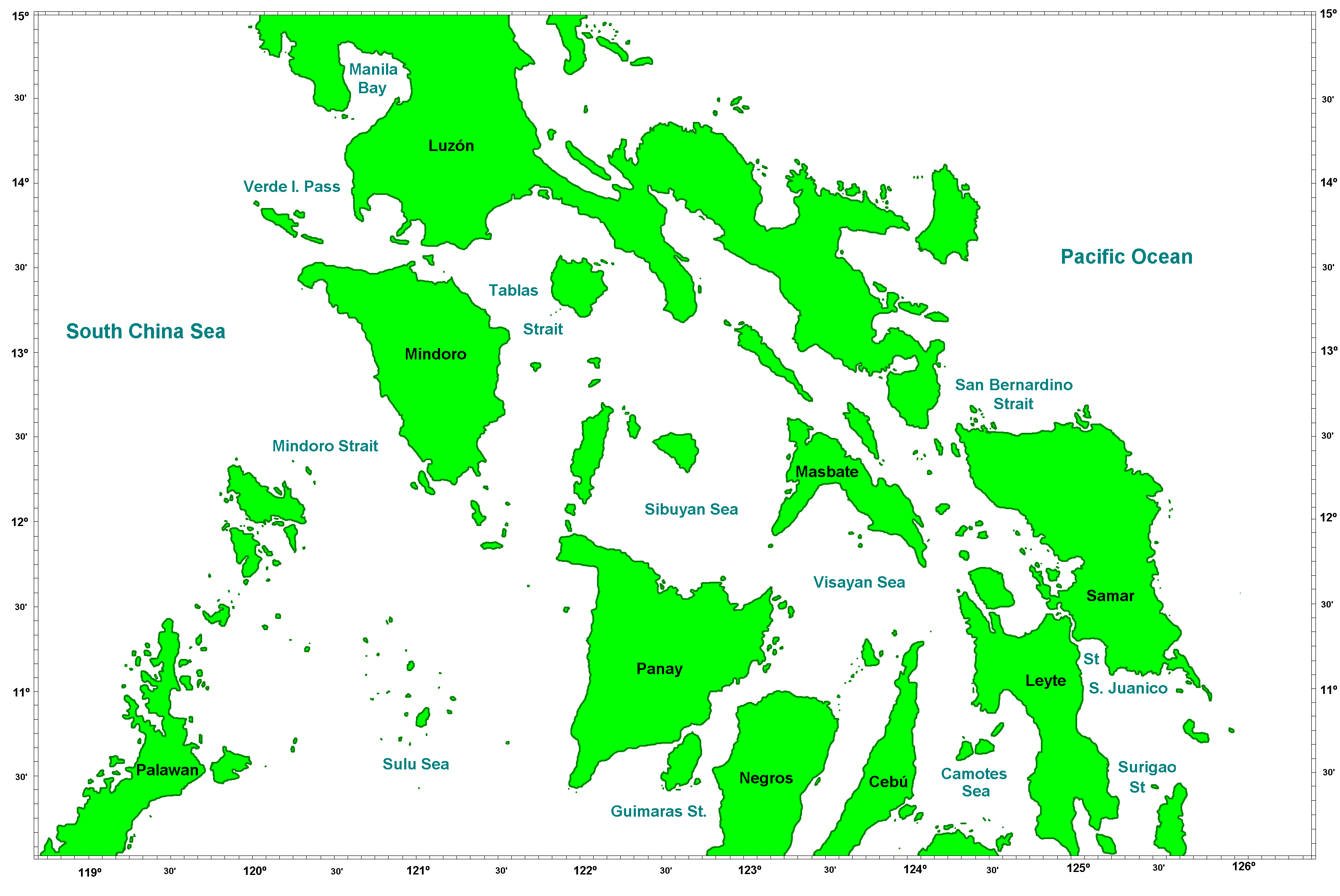 Philippines central part